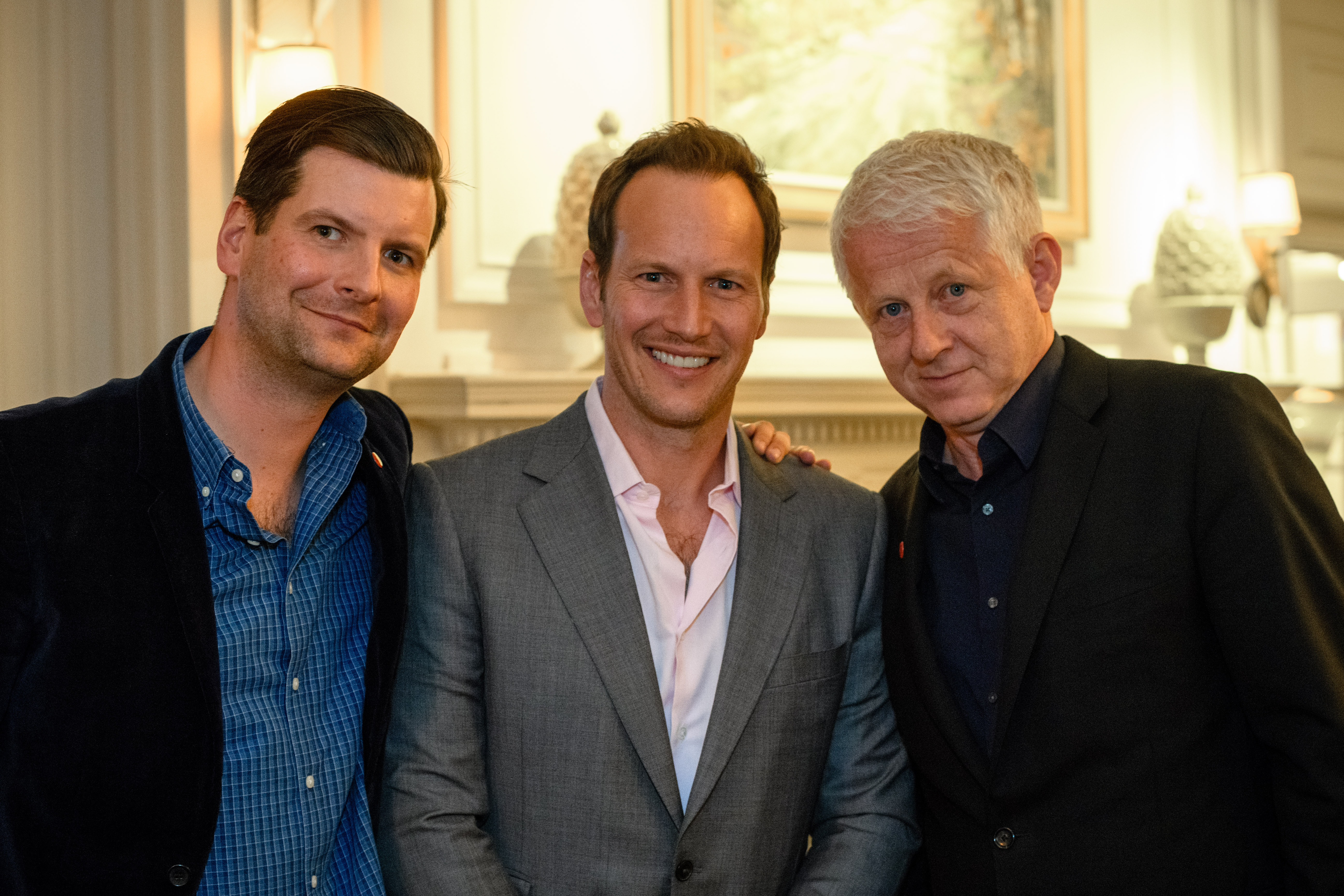 photo by “Neil Grabowsky / Montclair Film Festival”